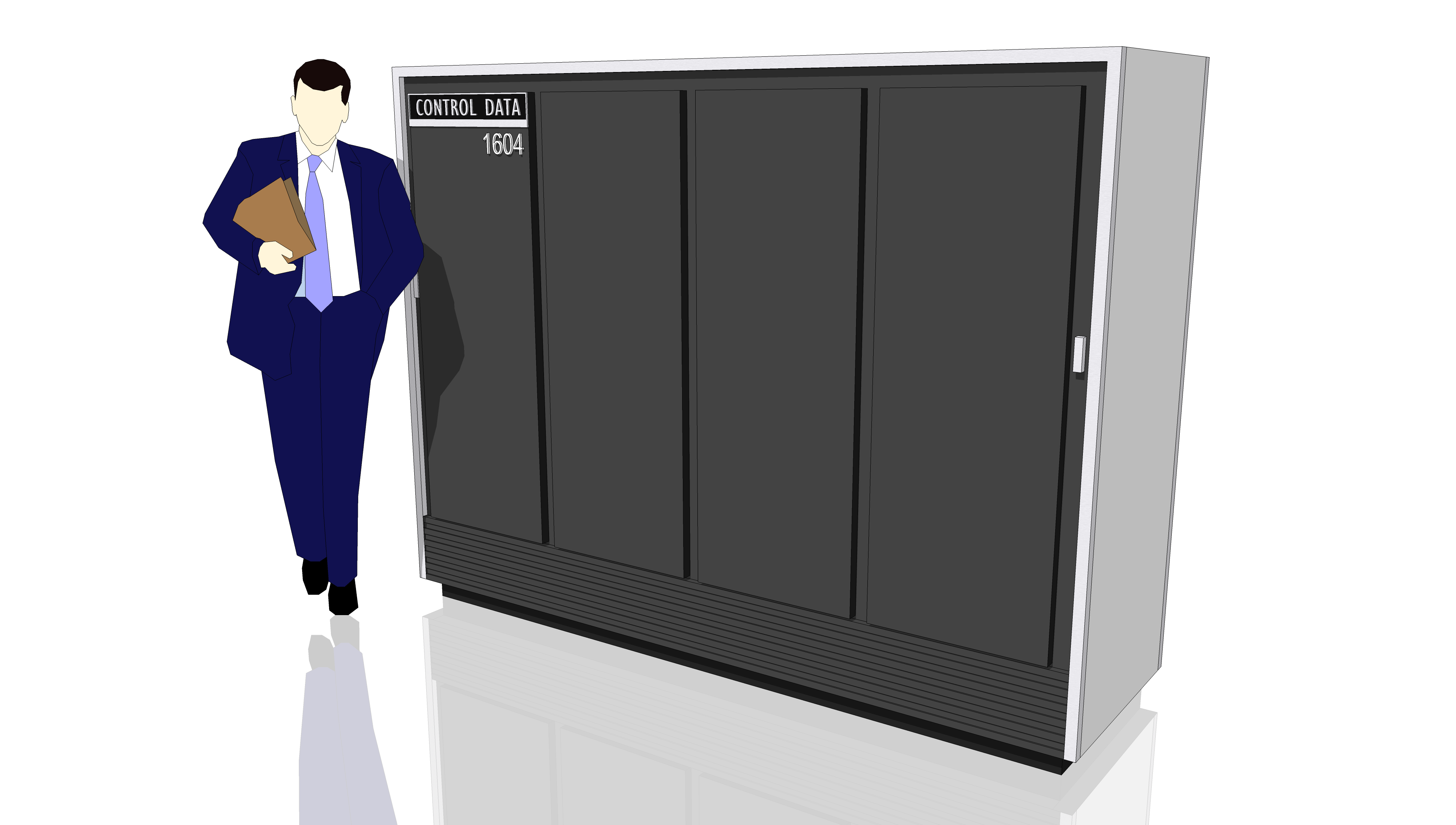 General overview of CDC 1604 supercomputer, designed by Seymour Cray, with a figure as scale.